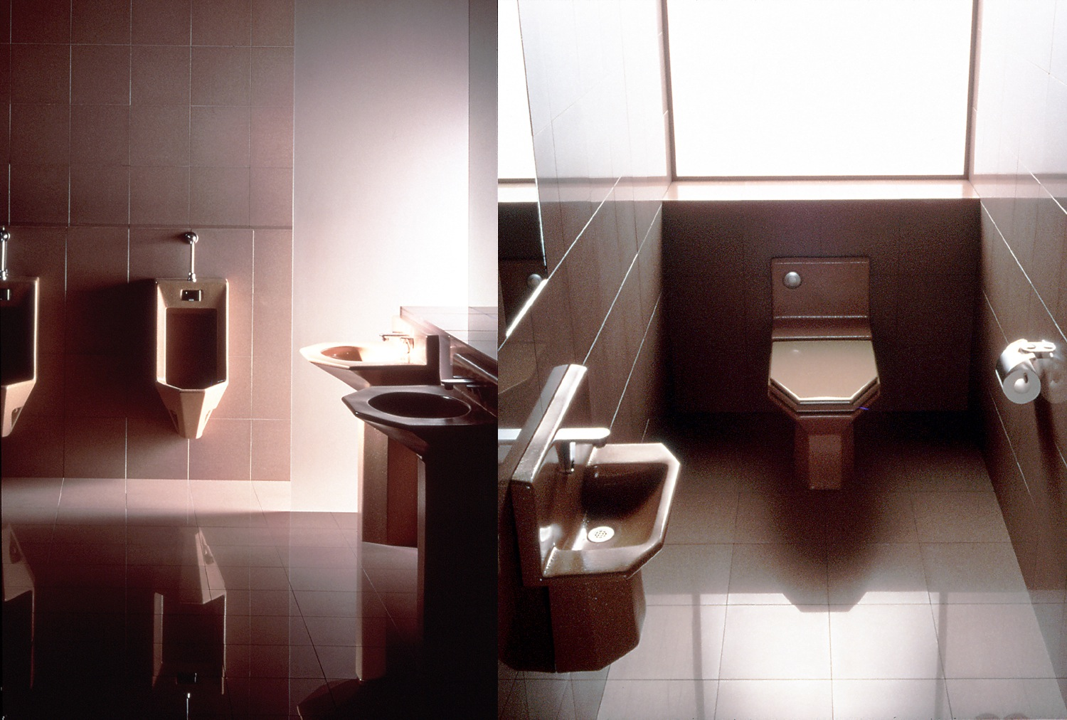 Works of KAWAKAMI Motomi 009-1993